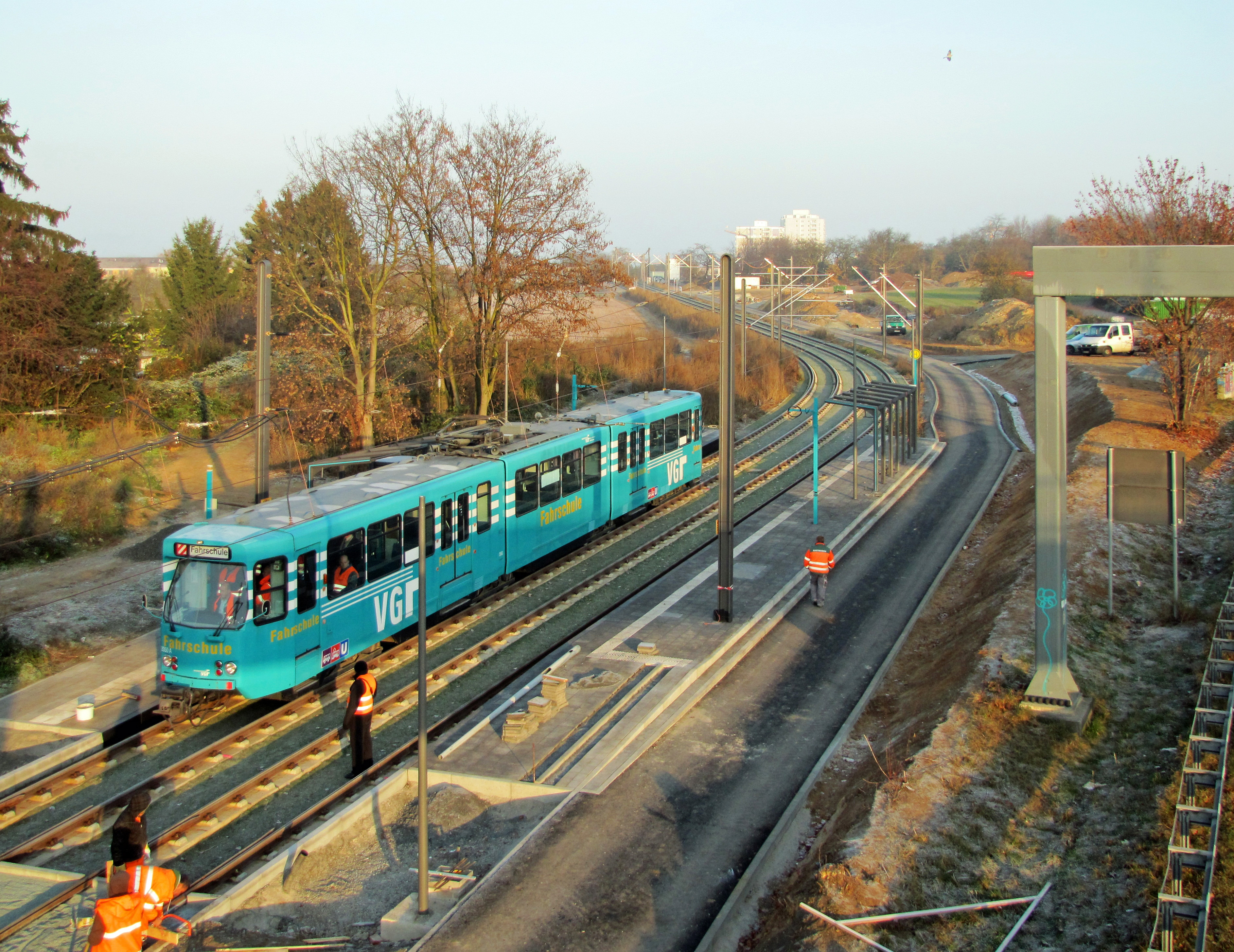 New tram track, line 18, at "A 661" (direction "Gravensteiner Platz"), 2011 in Frankfurt am Main, Germany.